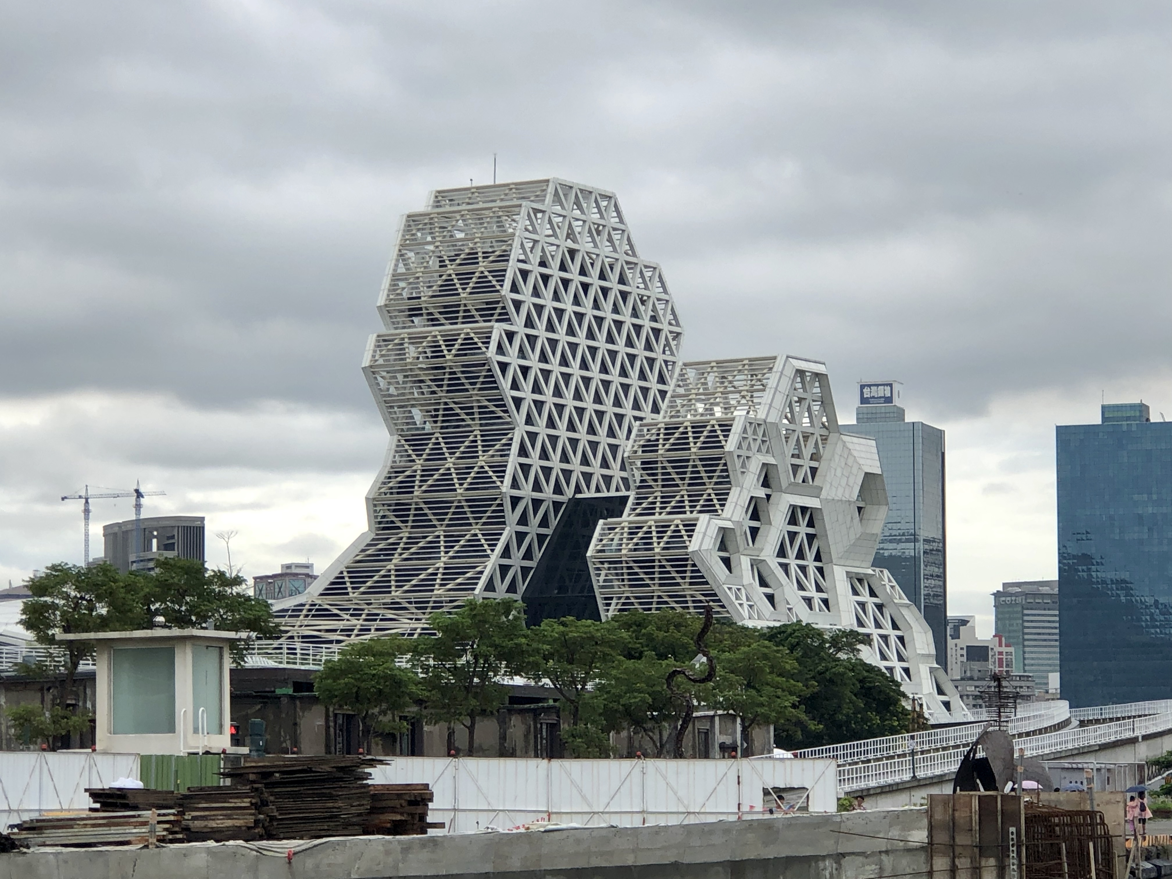 Kaohsiung Music Center (Taiwan) - under construction in August 2019